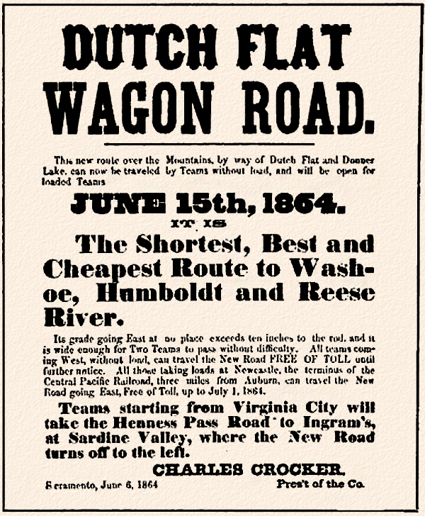 Advertisement for the opening of the Dutch Flat Wagon Road, June 15, 1864.